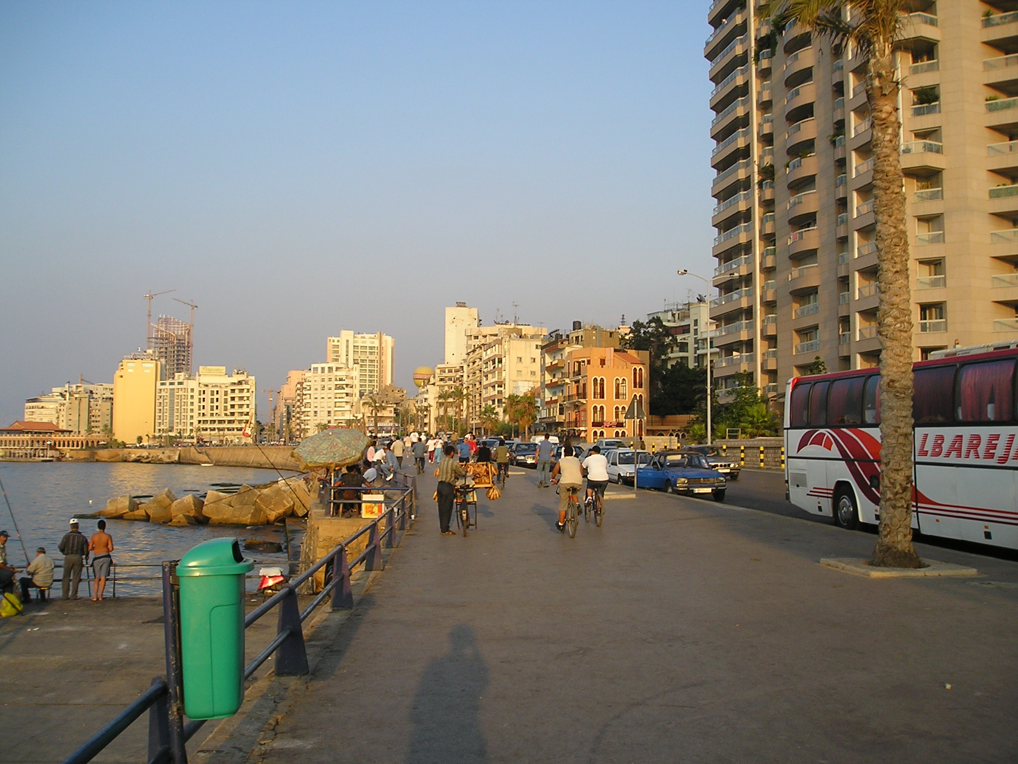 Beirut, Lebanon - Corniche (promenade) at Avenue de Paris in western Beirut.